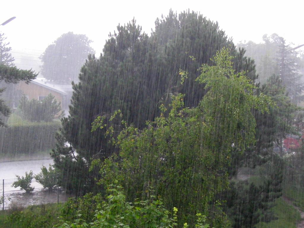 Rain.